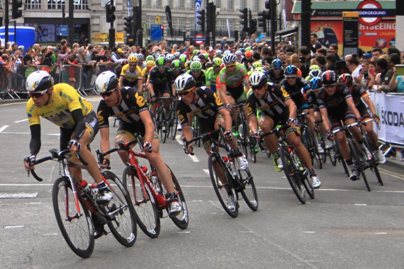 2015 Tour of Britain winner Edvald Boasson Hagen leads his MTN Qhubeka team through Piccadilly Circus during the last stage of the cycle race.